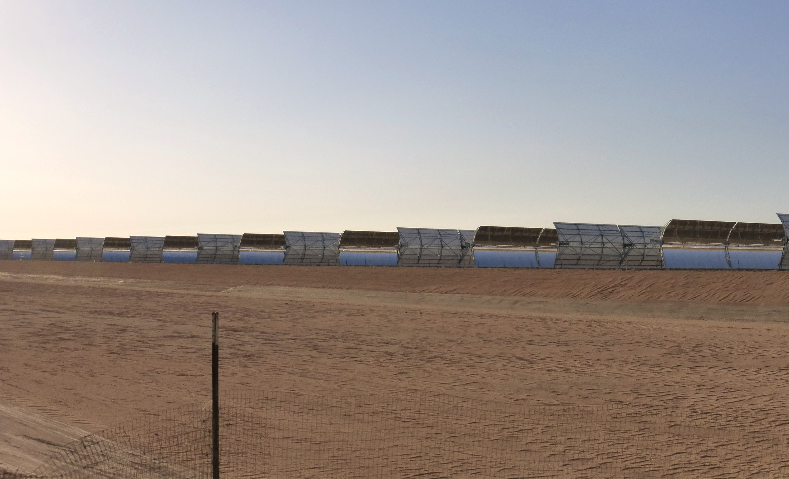 The 250MW Mojave Solar Project near Harper Lake in the settlement called Lockhart in California. The project uses parabolic trough technology.